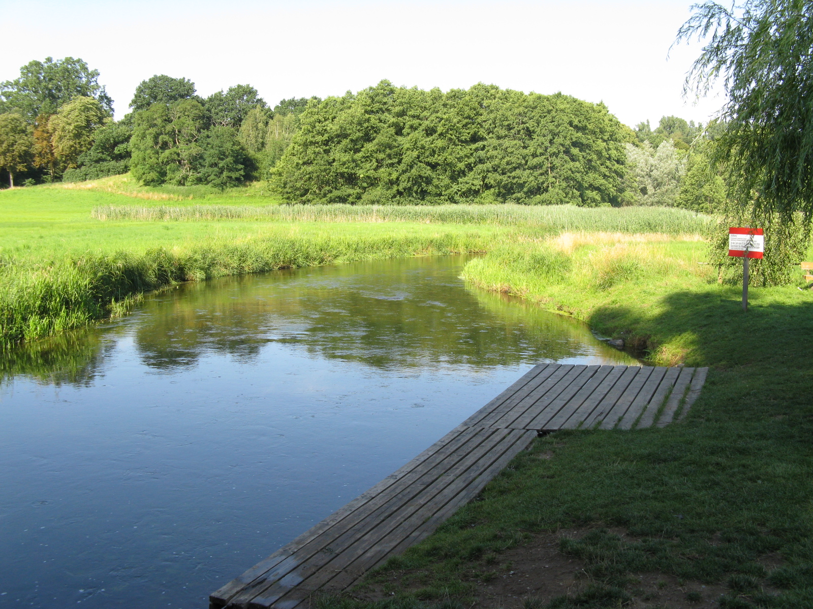 Warnow river in Weitendorf (near Brüel), Mecklenburg-Vorpommern, Germany